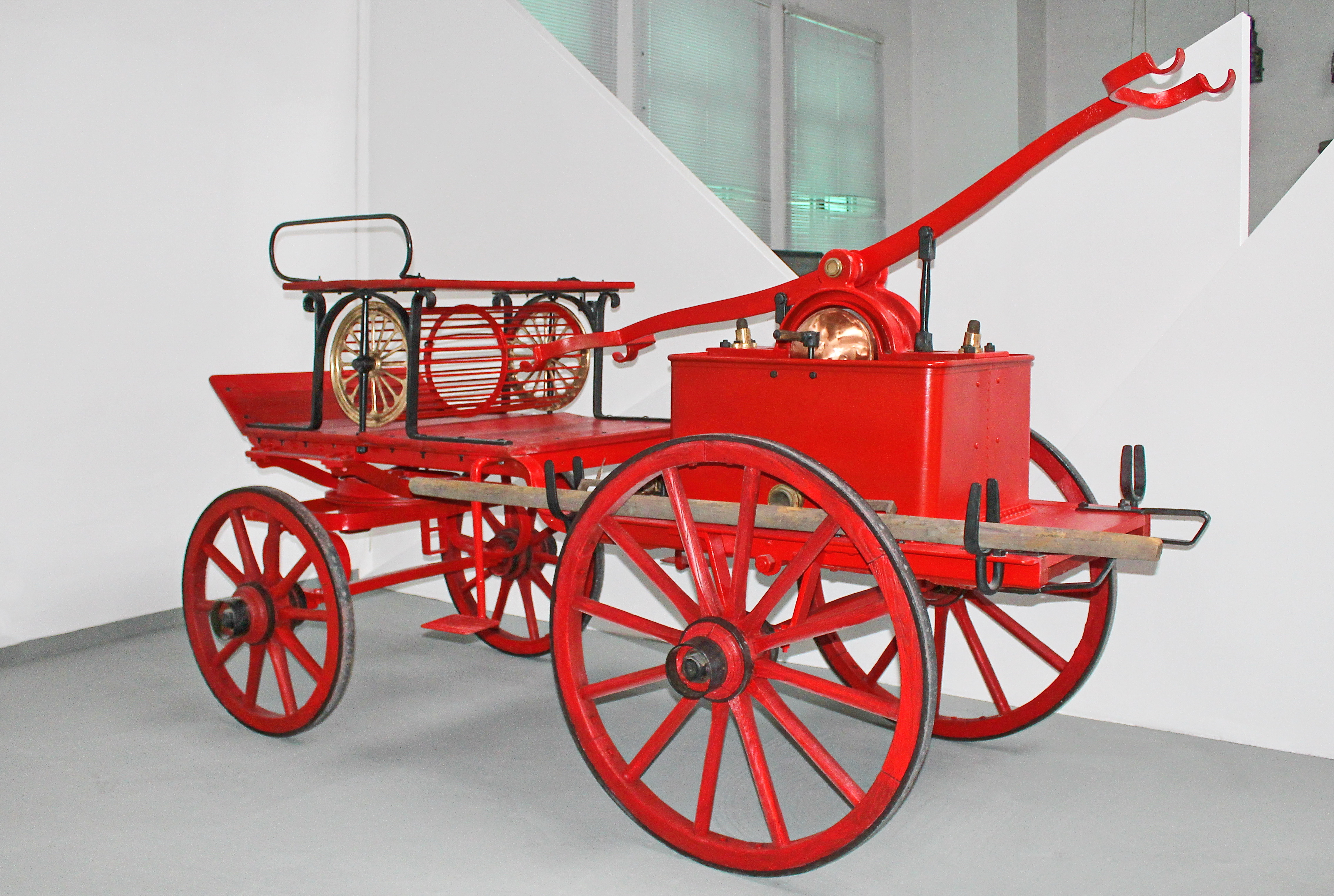 Hand-drawn fire engine. It is located in Museum of Science and Technology Belgrade.